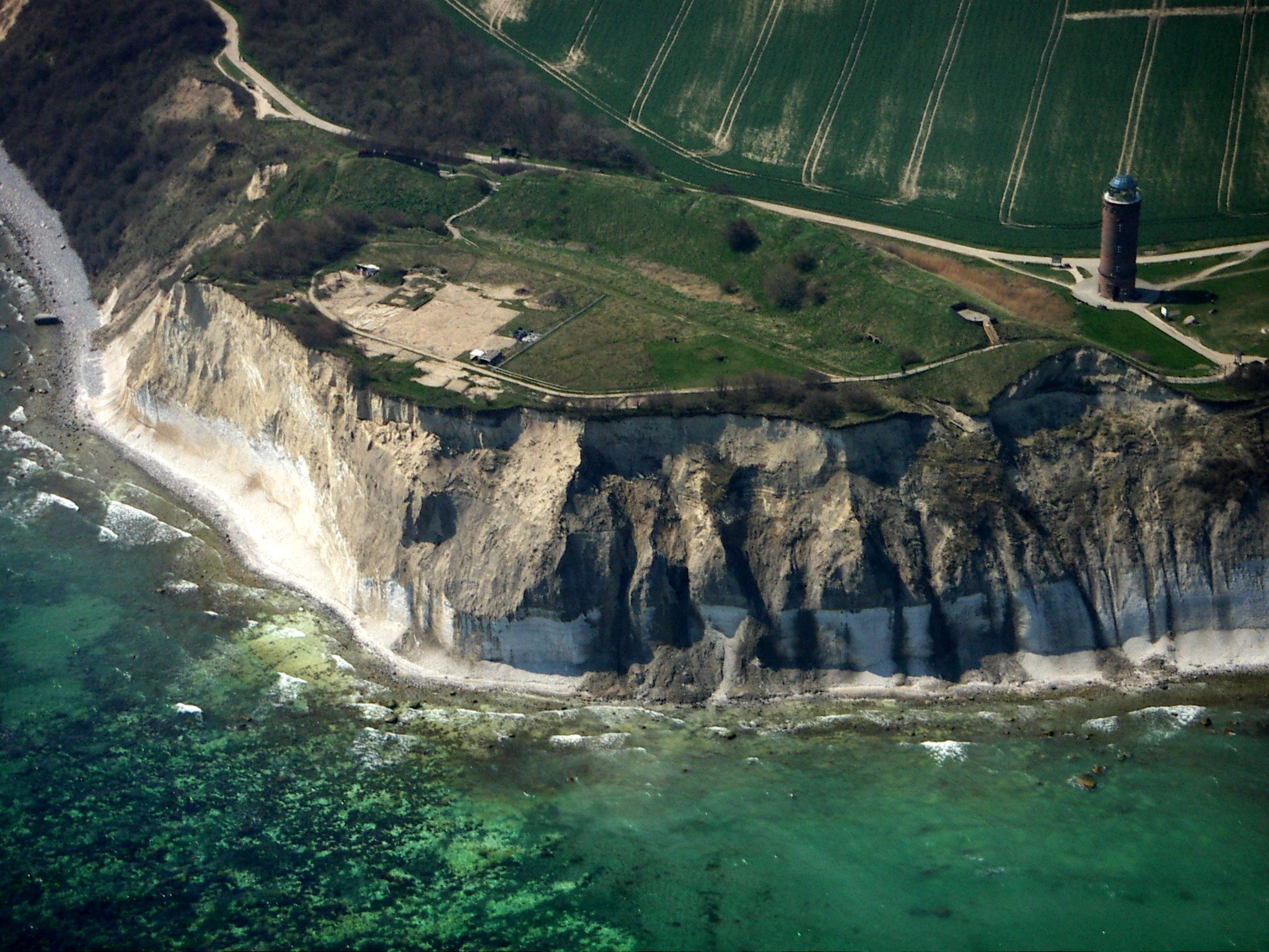 Slavonic ring fortress at Kap Arkona